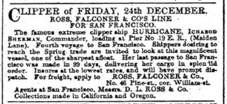 Advertisement for the extreme clipper Hurricane`s last voyage from New York to San Francisco, December 1858.